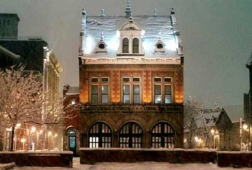 First fire station, Place d'Youville (1903), Montreal, Quebec, Canada